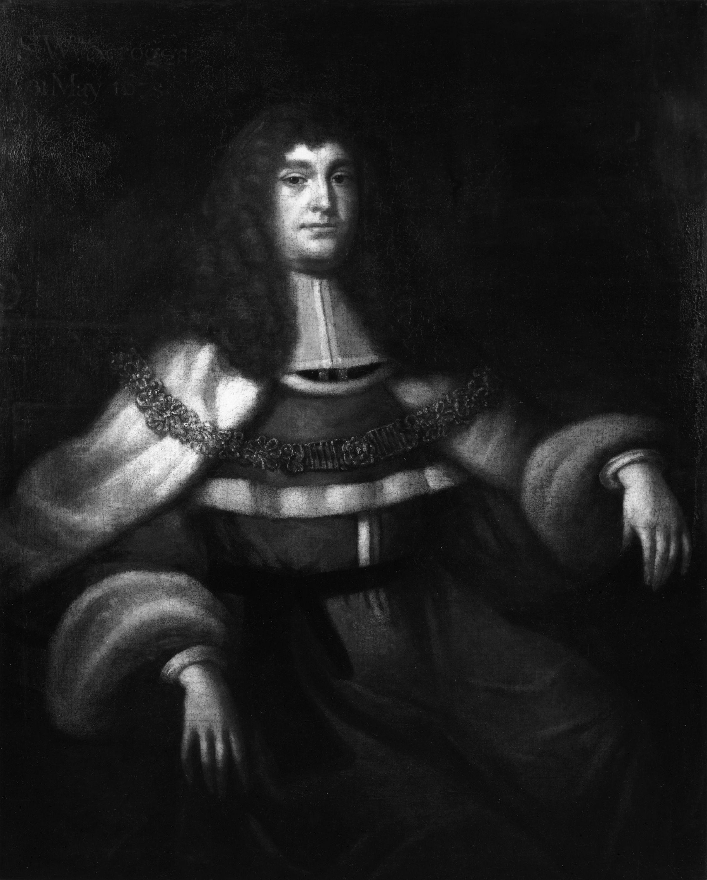 Sir William Scroggs, by John Michael Wright (died 1694). All images in this batch have been confirmed as author died before 1939 according to the official death date listed by the NPG.